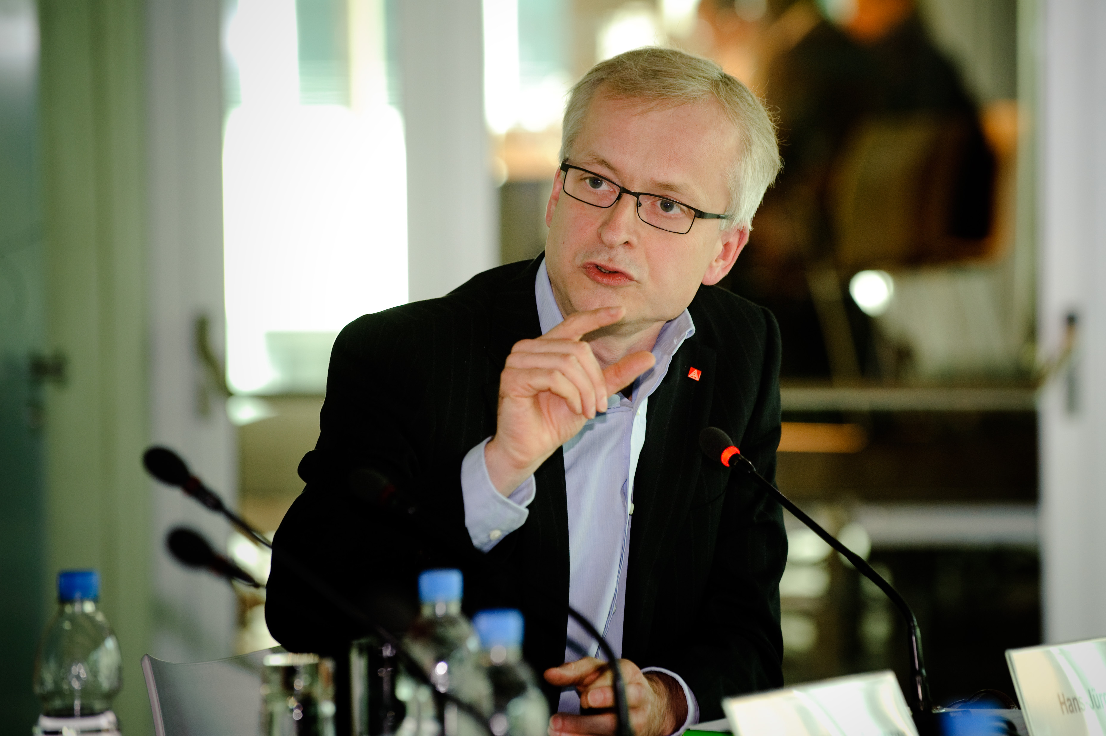 Foto: Stephan Röhl